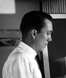 Francisco Mañosa (left) with Mañosa brothers